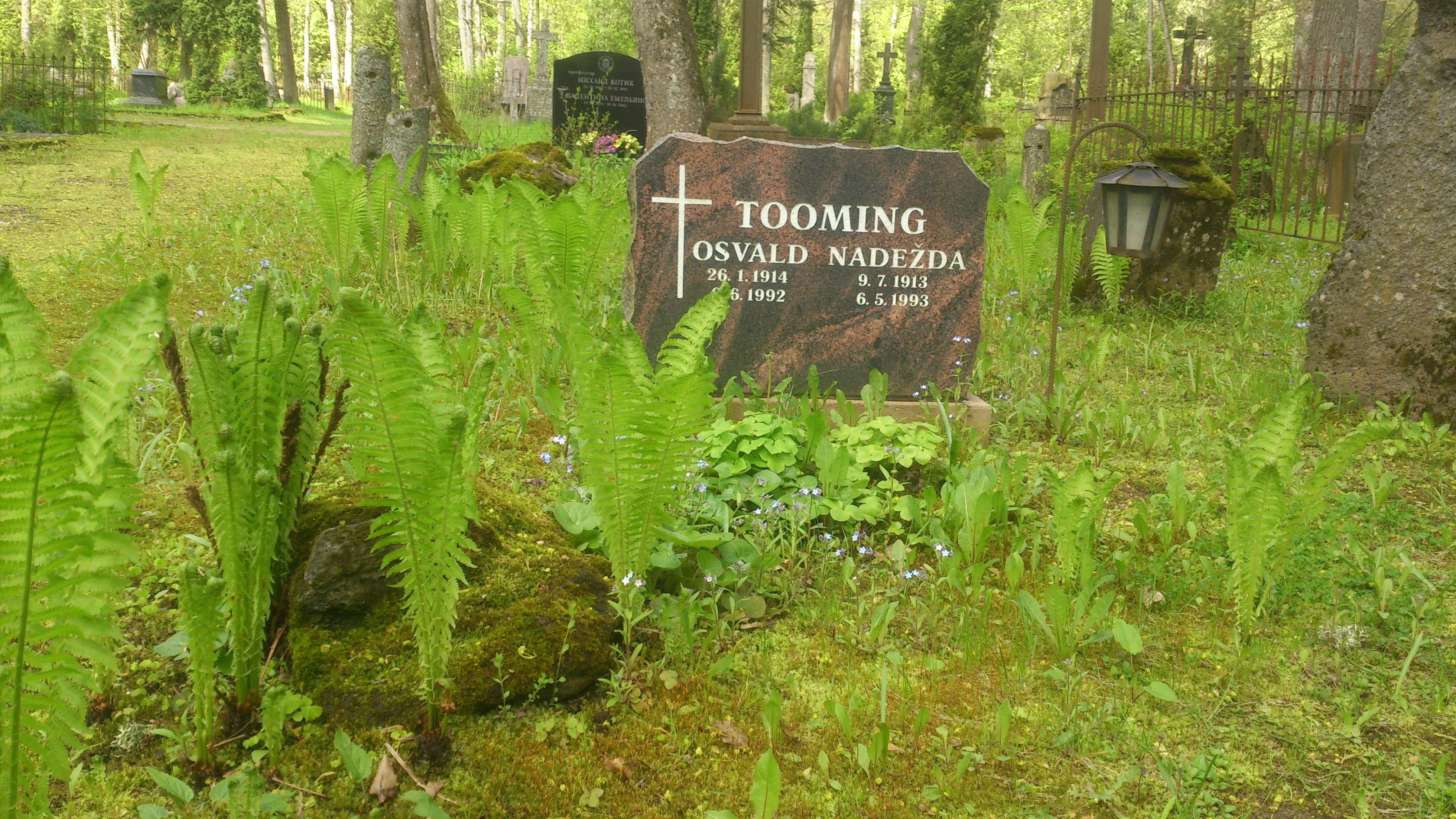 Raadi cemetery in Tartu